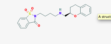 2-D Structure of Repinotan Hydrochloride.